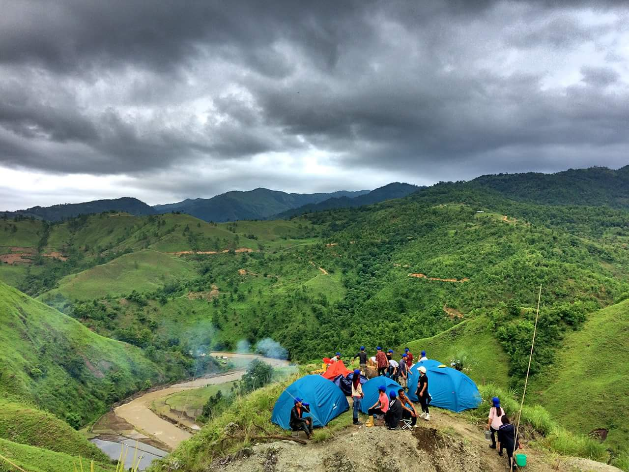 Huishu Landscape,Scenery